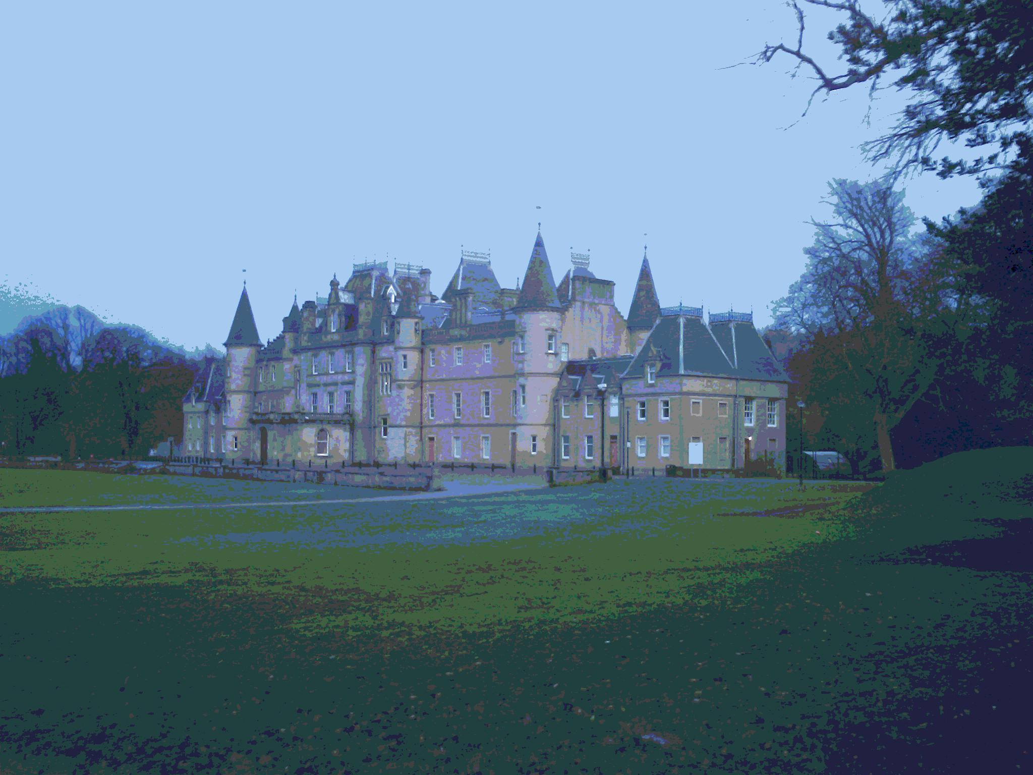 Calendar Park, Falkirk, Scotland